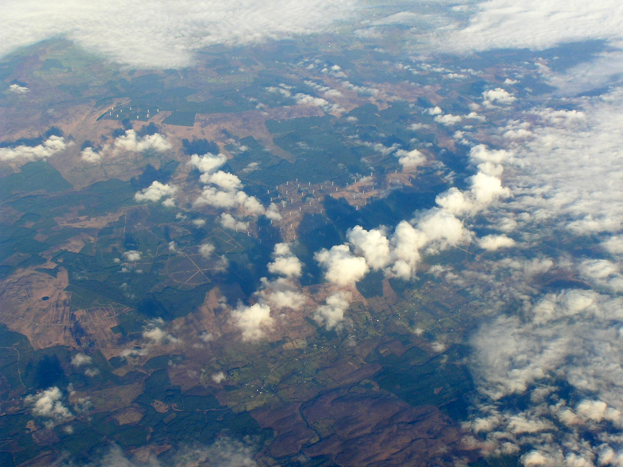 Another wind farm, this one built above the village of Derrybrien (running just below that line of clouds) and also called Derrybrien. It's the largest wind farm in Ireland. The hill it's built on has the awesome name of Cashlaundrumlahan. The almost perfectly round hole in the lower left is a lake called Divney's Lough. I wish I knew more about it; like: why is it almost perfectly round?